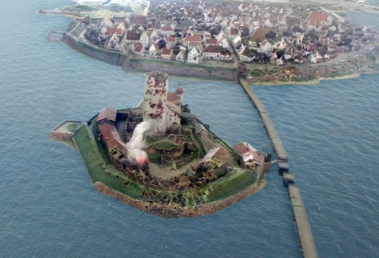 Simulation of Vyborg castle in 1710 burning after the Russian attack. The picture has been digitally created by the author based on a photo of the Vyborg castle museum miniature.